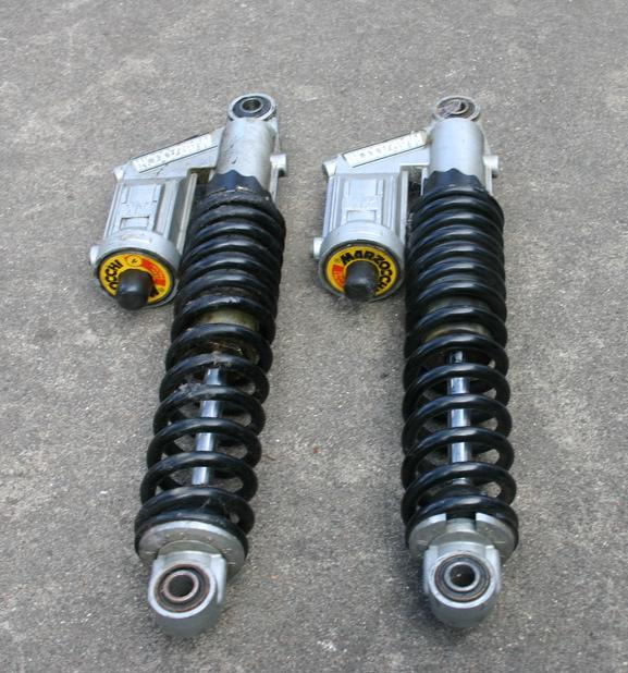 Italian suspension firm Marzocchi manufactured the popular Strada gas-oil shock absorbers for motorcycles